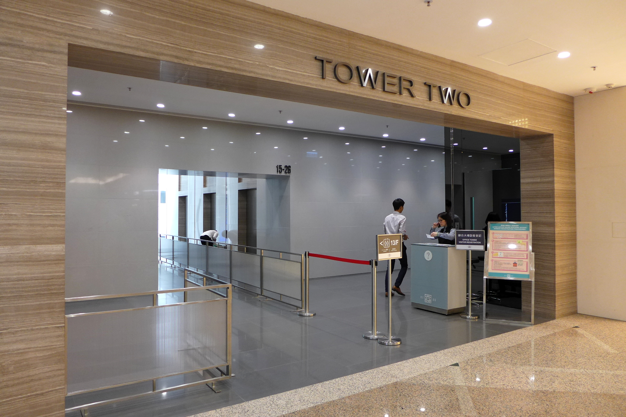 Times Square Tower 2 Office Liftlobby Entrance